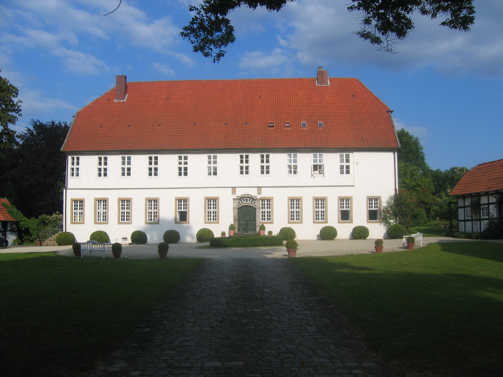 Hiddenhausen Castle in Hiddenhausen, District of Herford, North Rhine-Westphalia, Germany.